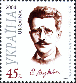 Stamp of Ukraine